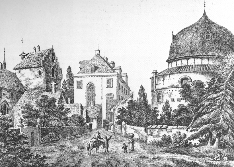 The Ostertor (“Eastern Gate”) in Bremen. View from the Altenwall towards the Ostertor (left hand) and the Ostertorzwinger (right hand) at the beginning of the 19th century just before the dismantling of the gate fortification.